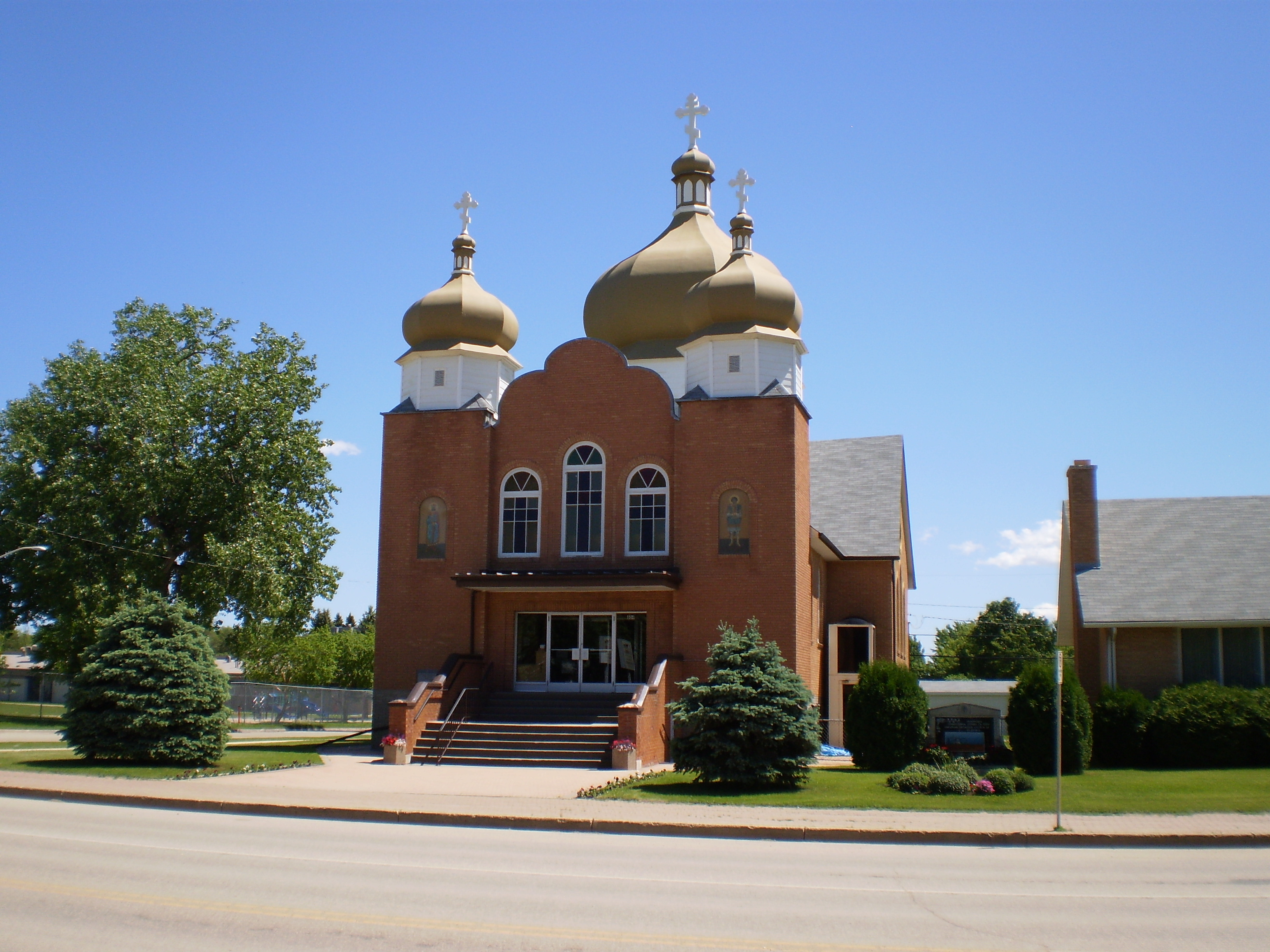 St, Geogre's Ukrainian Orthodox Church in Dauphin, Manitoba, Canada Српски (ћирилица): Украјинска Православна црква Св.Ђорђе у Дофену, Манитоба , Канада